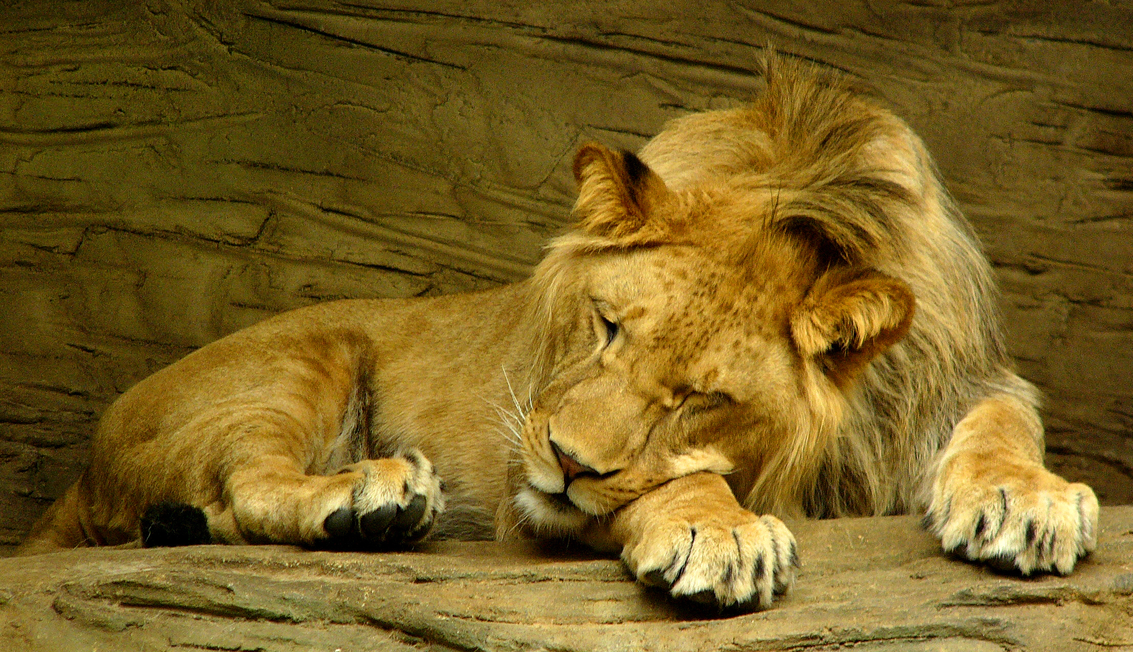 Male lion in the Olomouc zoo